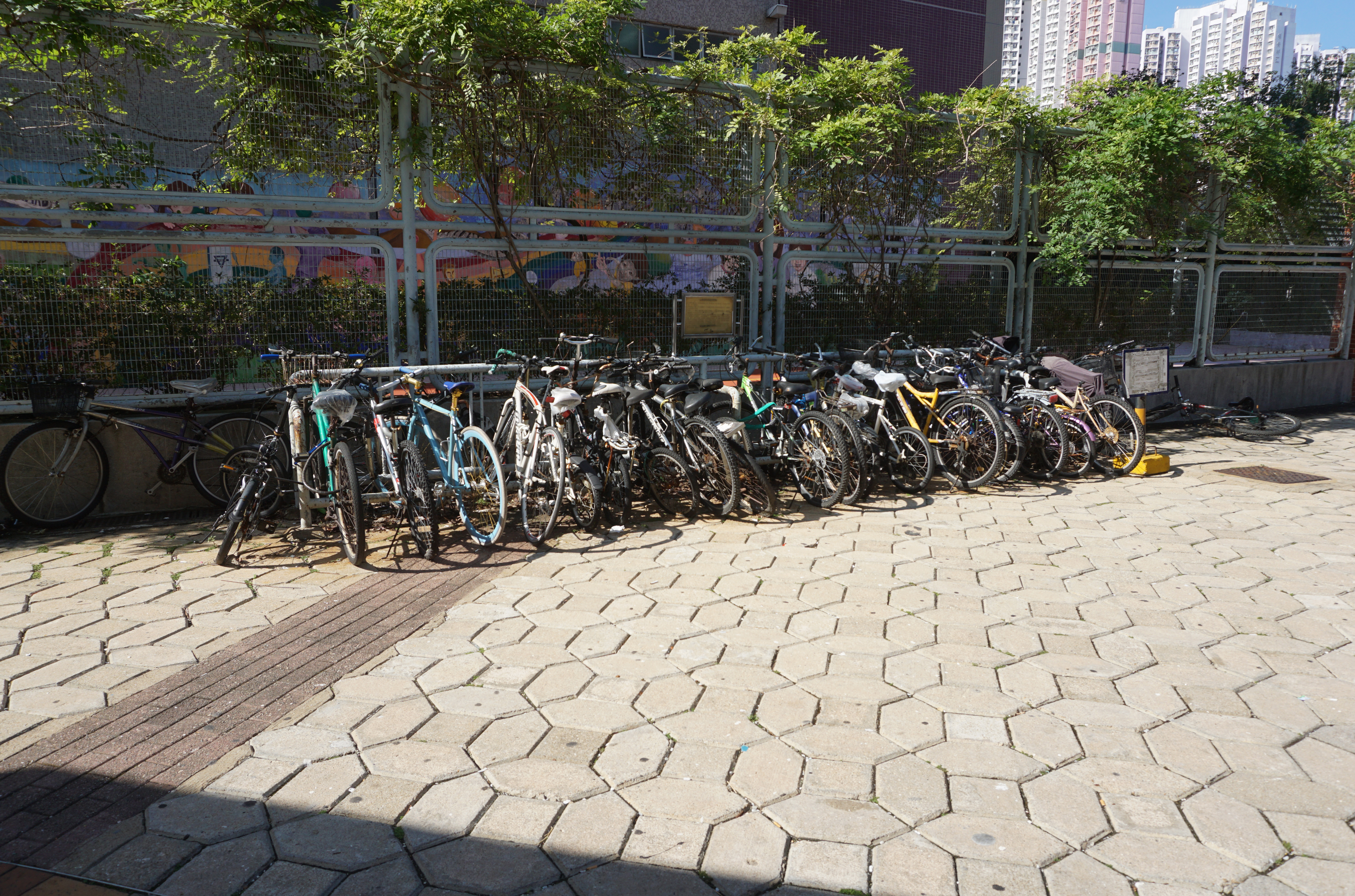 Heng On Estate in Heng On, Hong Kong.